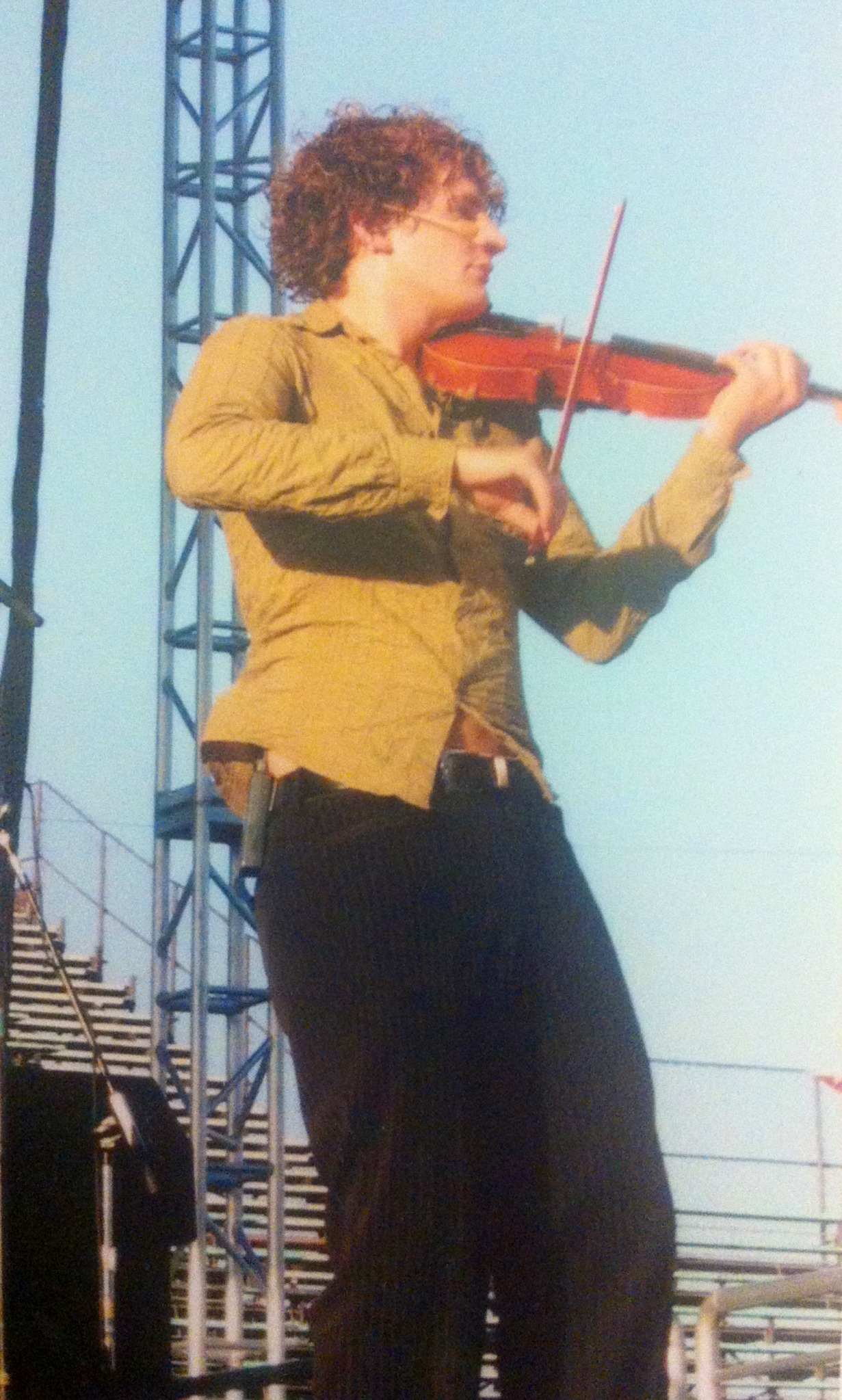 Mitchell Grobb performing at the Orange County Fair